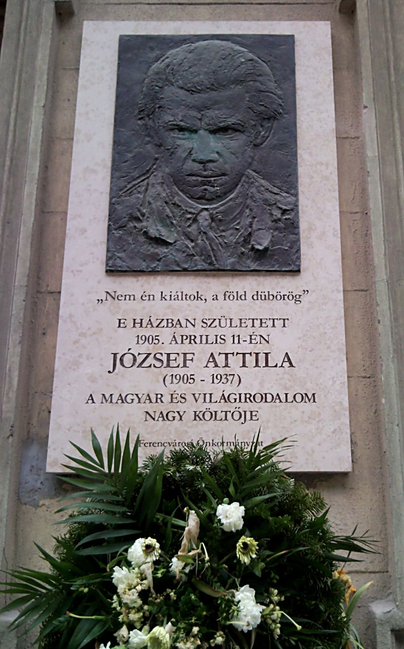 Commemorative plaque of Attila József in Budapest District IX, Gát Street No 3